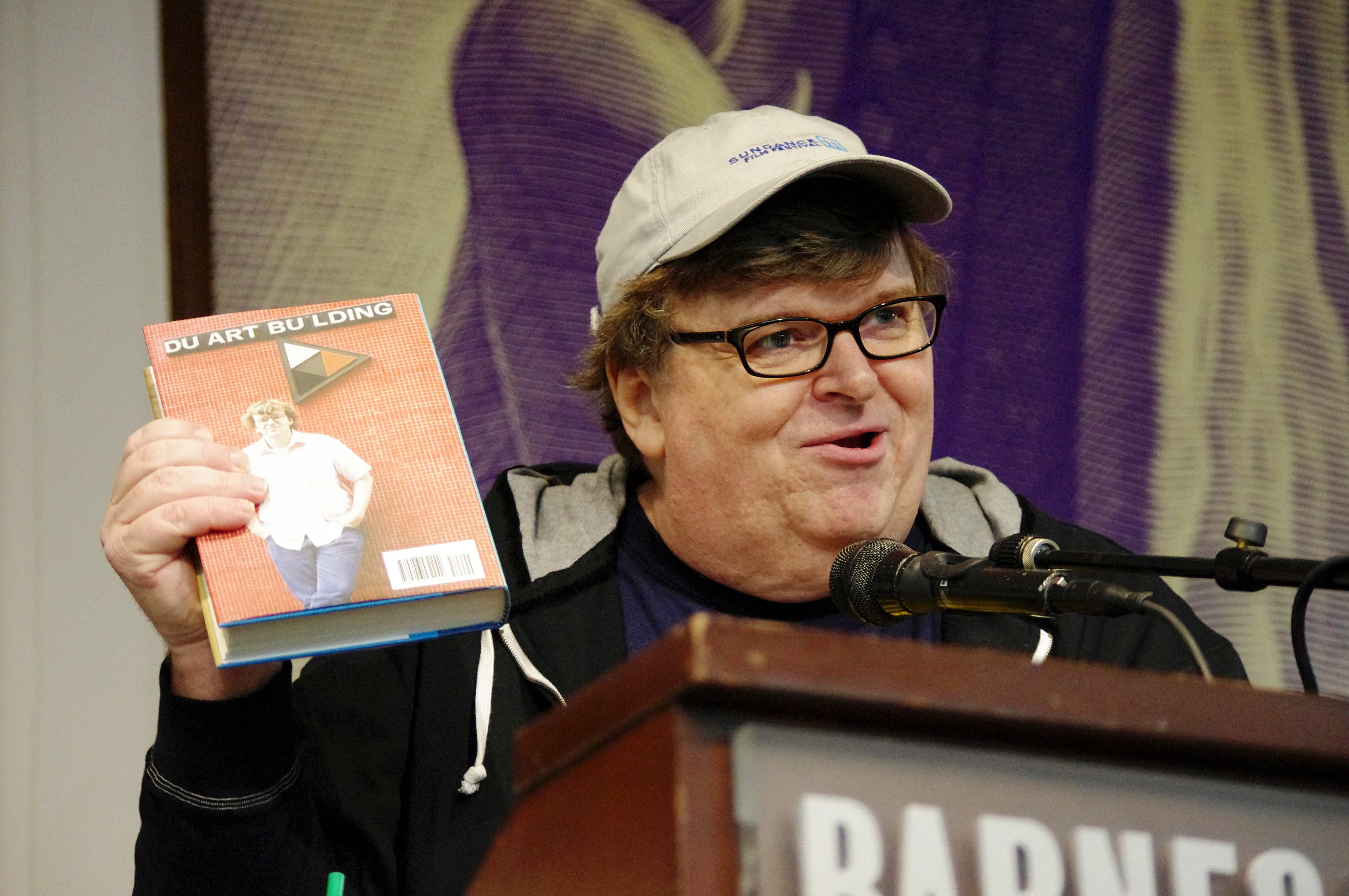 Michael Moore in New York City's Union Square Barnes & Noble to discuss his book Here Comes Trouble.